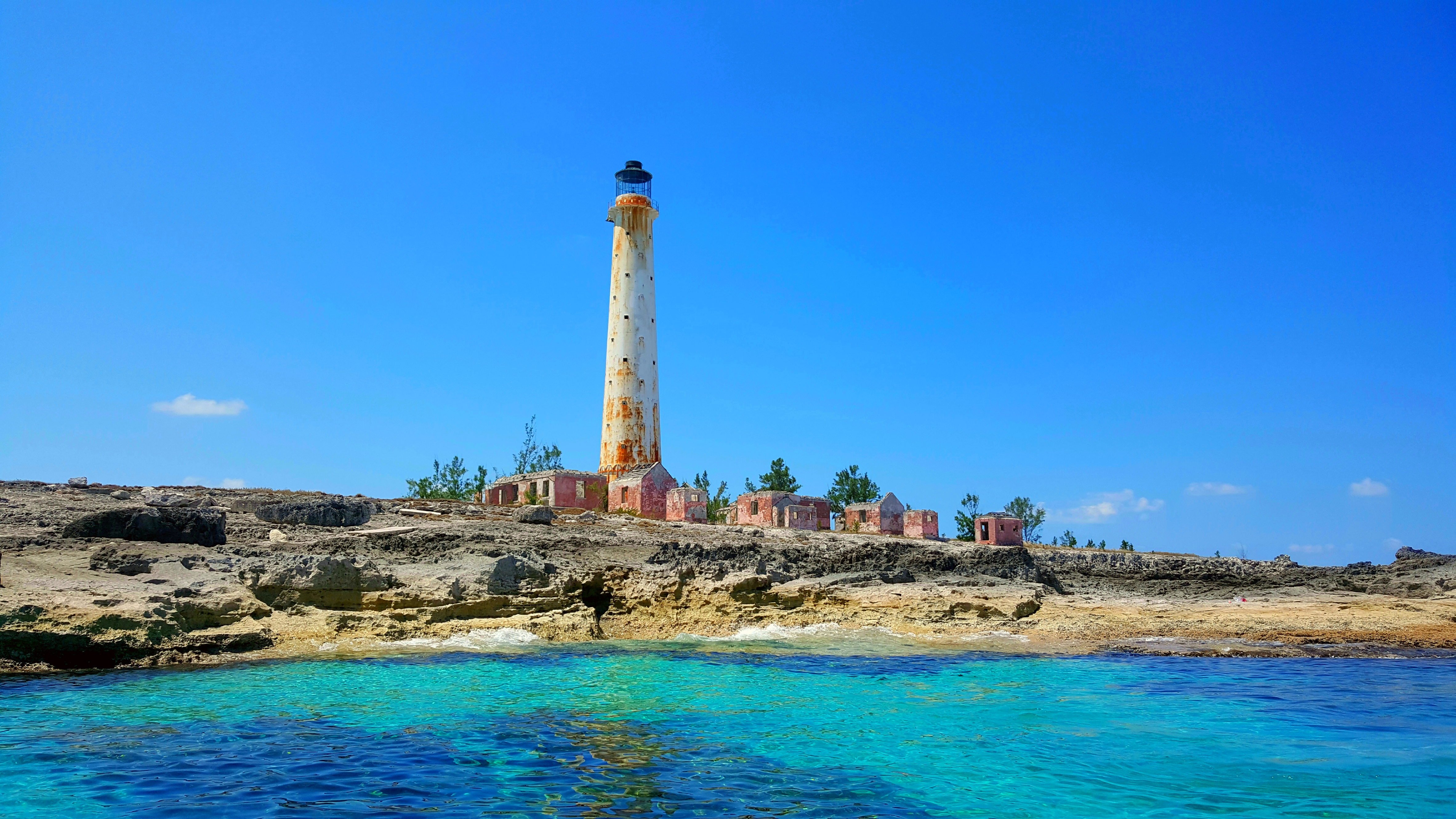 Picture taken in May of 2017 from the north side of the island.